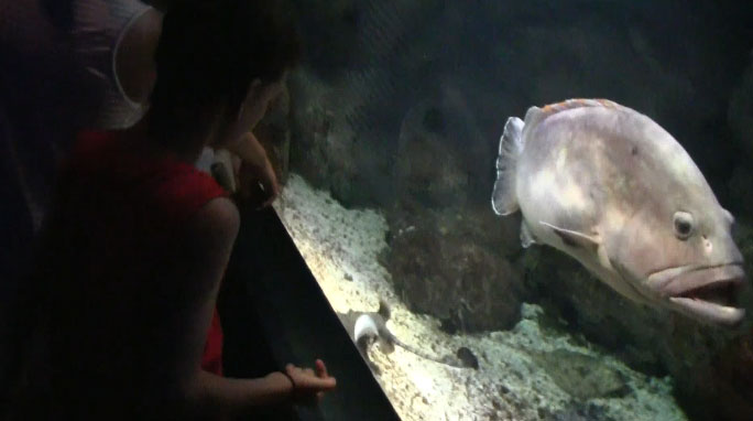 Thalasikosmos